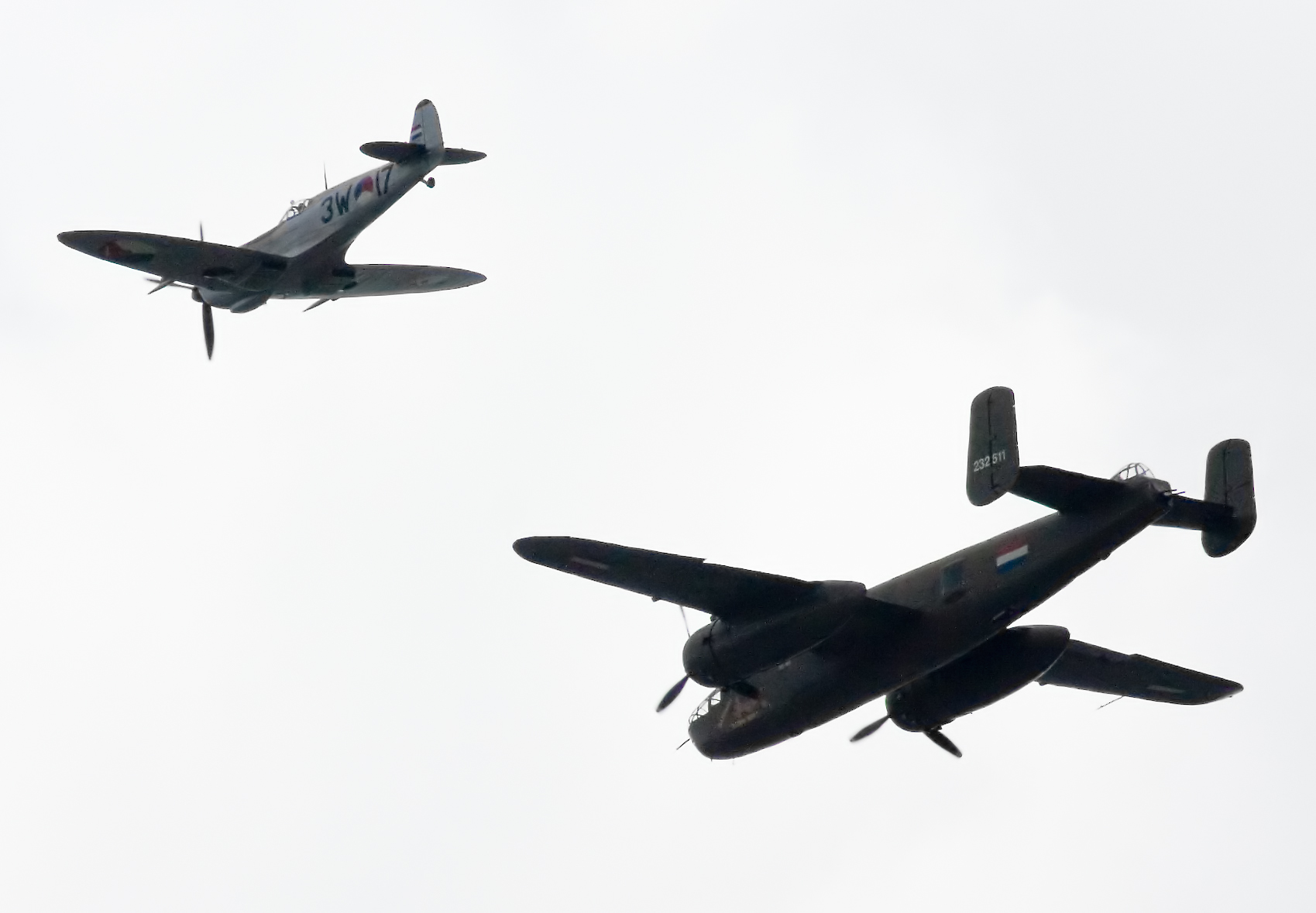 Holland, 61 years since Operation Manna: a commemorative flight of two antique airplanes.